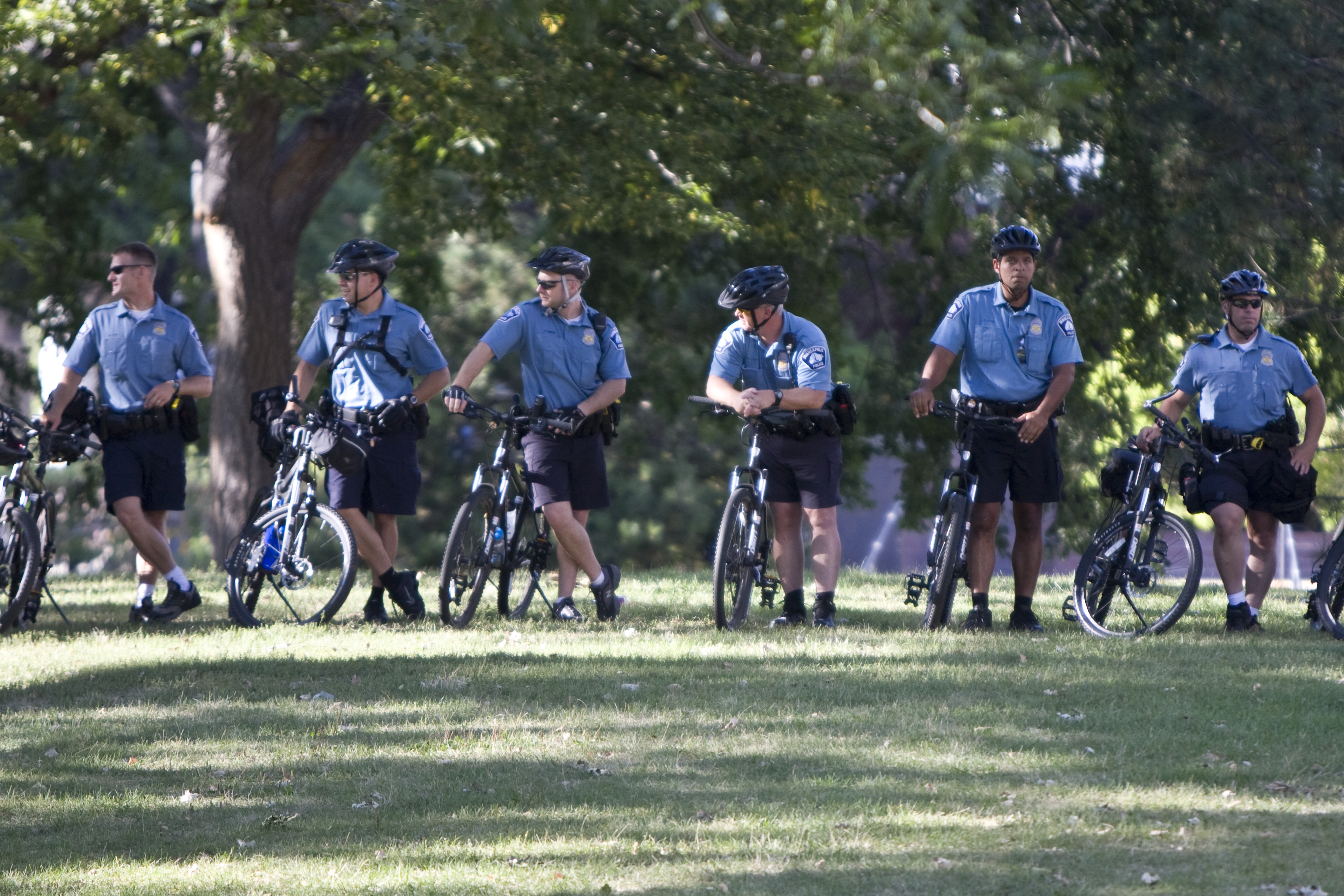 Minneapolis Police Department Bike Officers